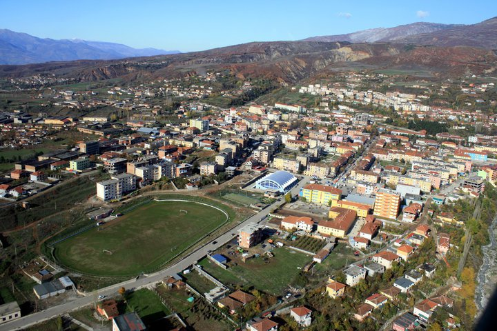 Qyteti i Peshkopise i pare nga siper